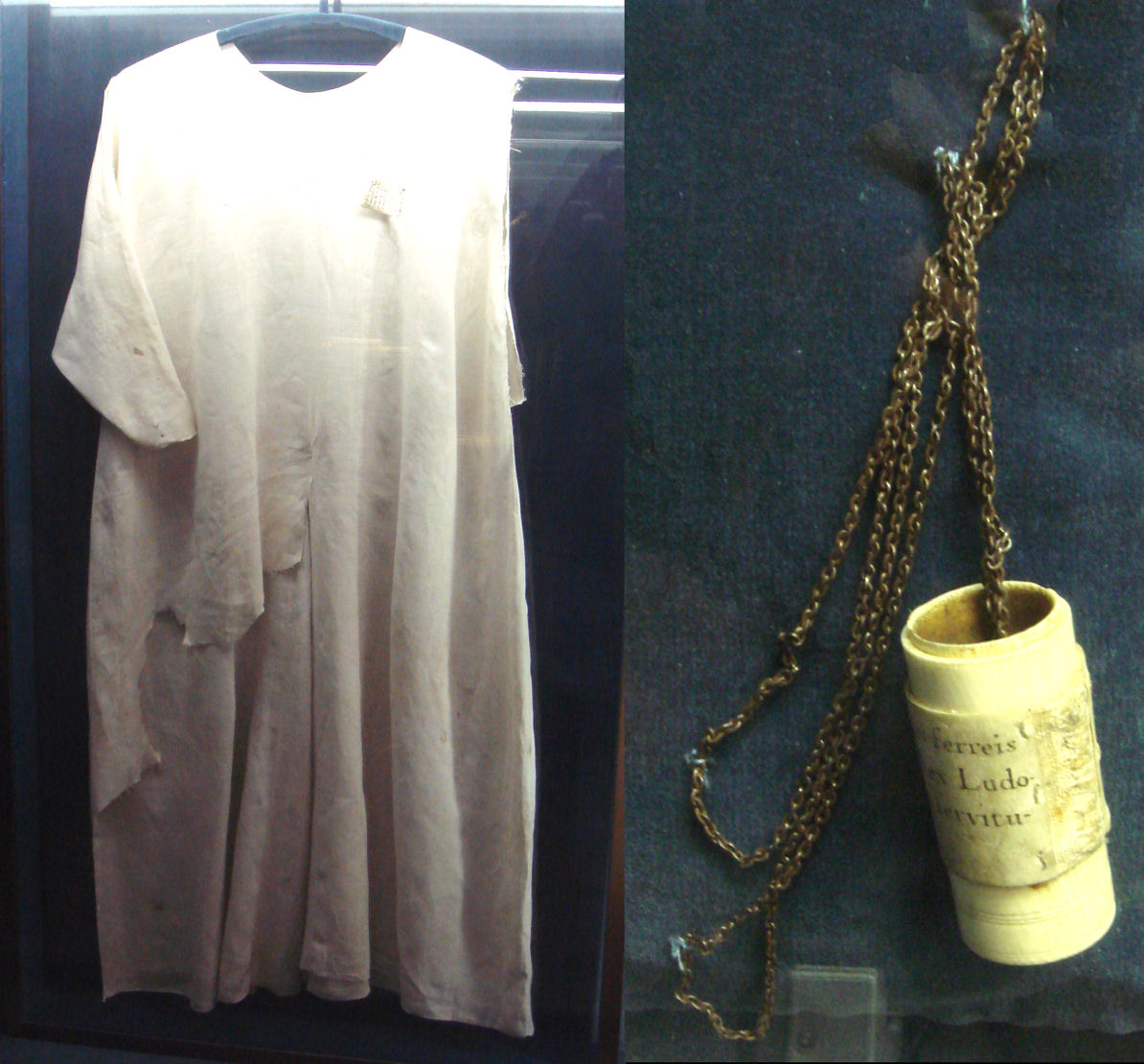 Tunique And Discipline of Louis IX of France